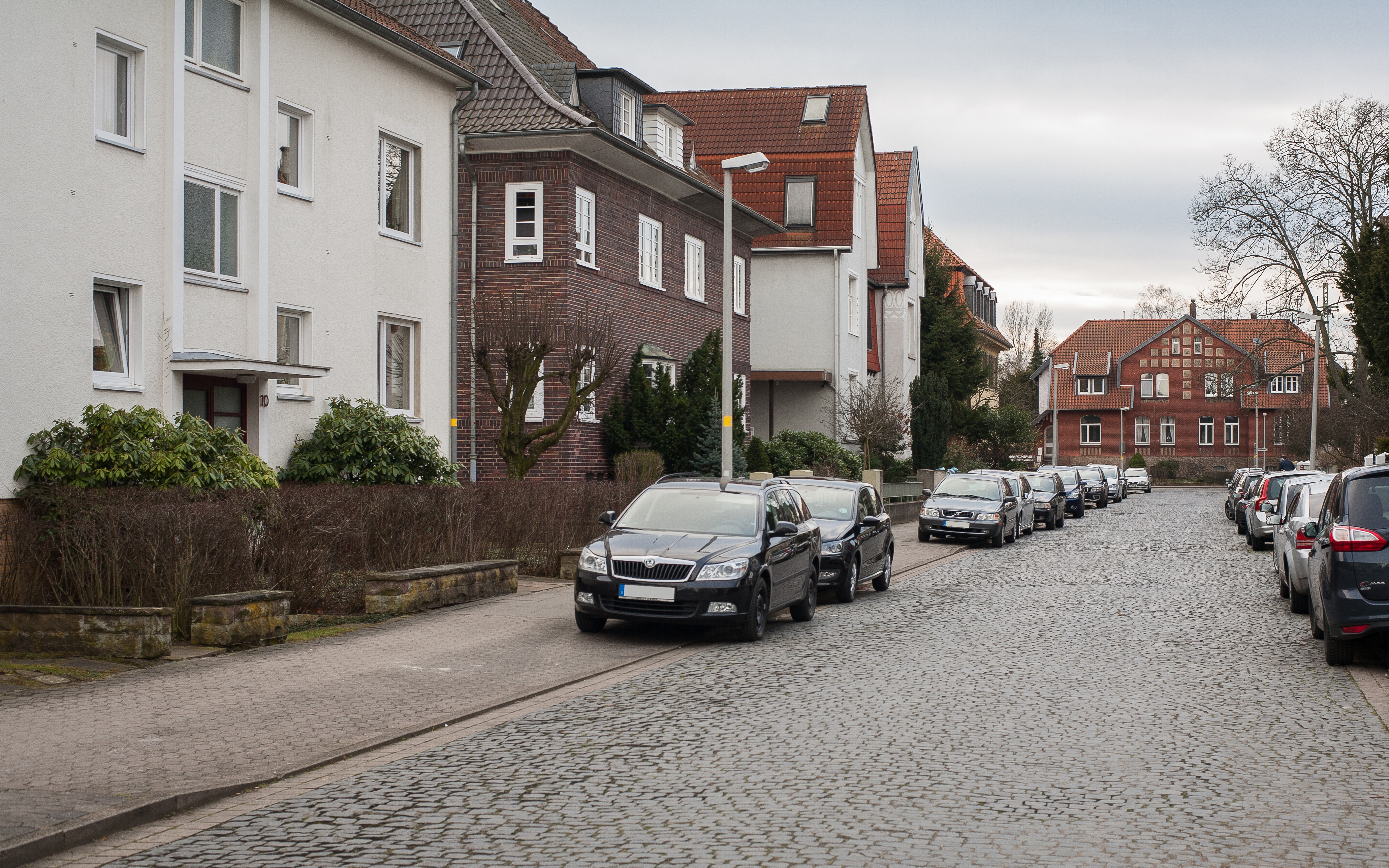 Waldheimstrasse in Waldheim district, Hanover, Germany.